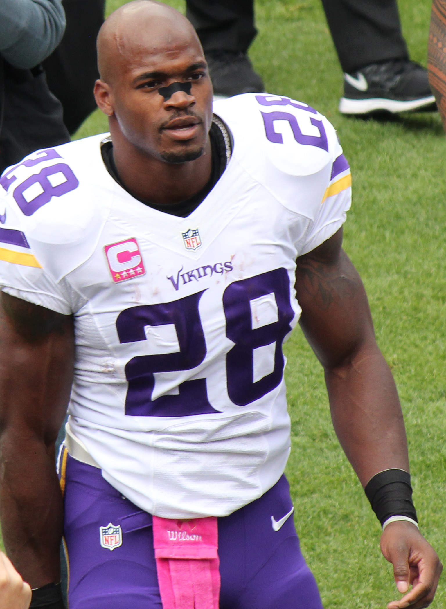 Adrian Peterson, a player on the National Football League.